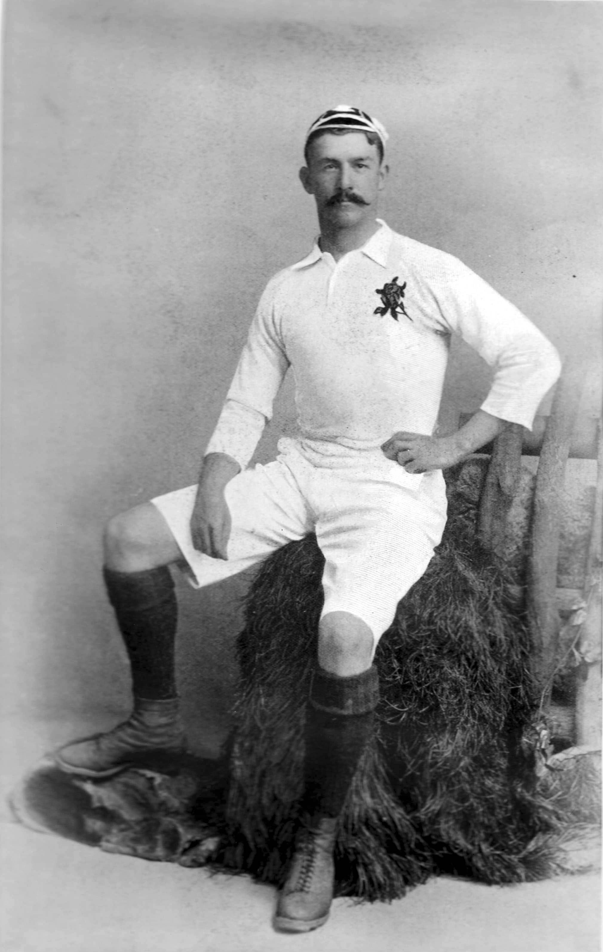 James Frederick Byrne, English cricketer and international rugby player circa 1905. Moseley and British Lions.